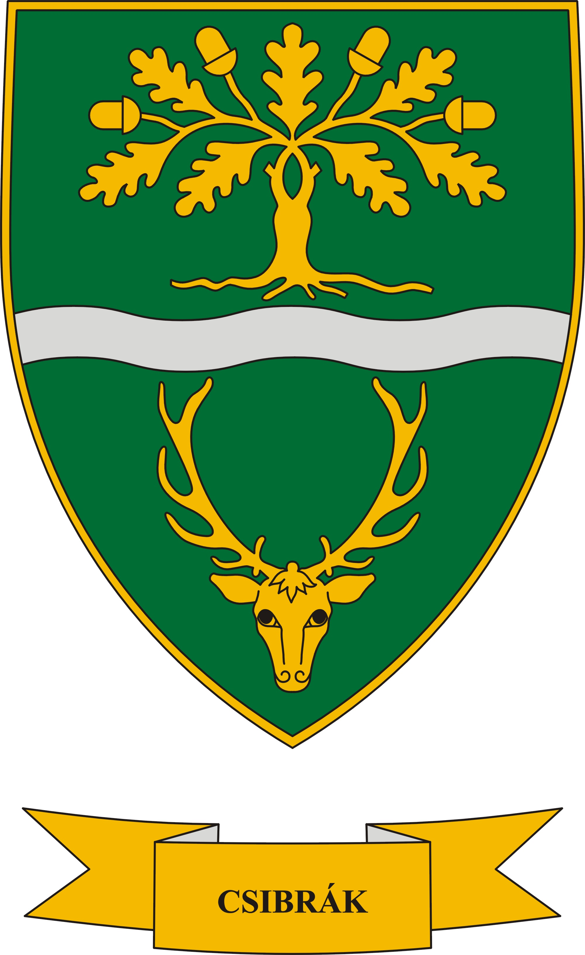 Coat of arms of Csibrák, Hungary